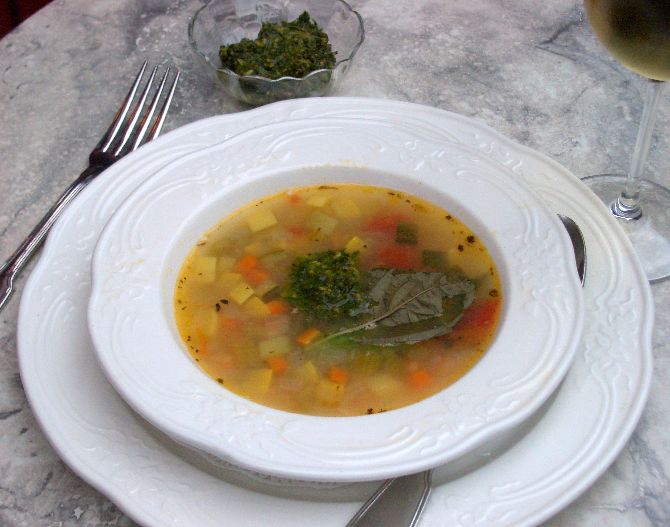 Soup au Pistou at Chez Leon St. Louis, Mo.